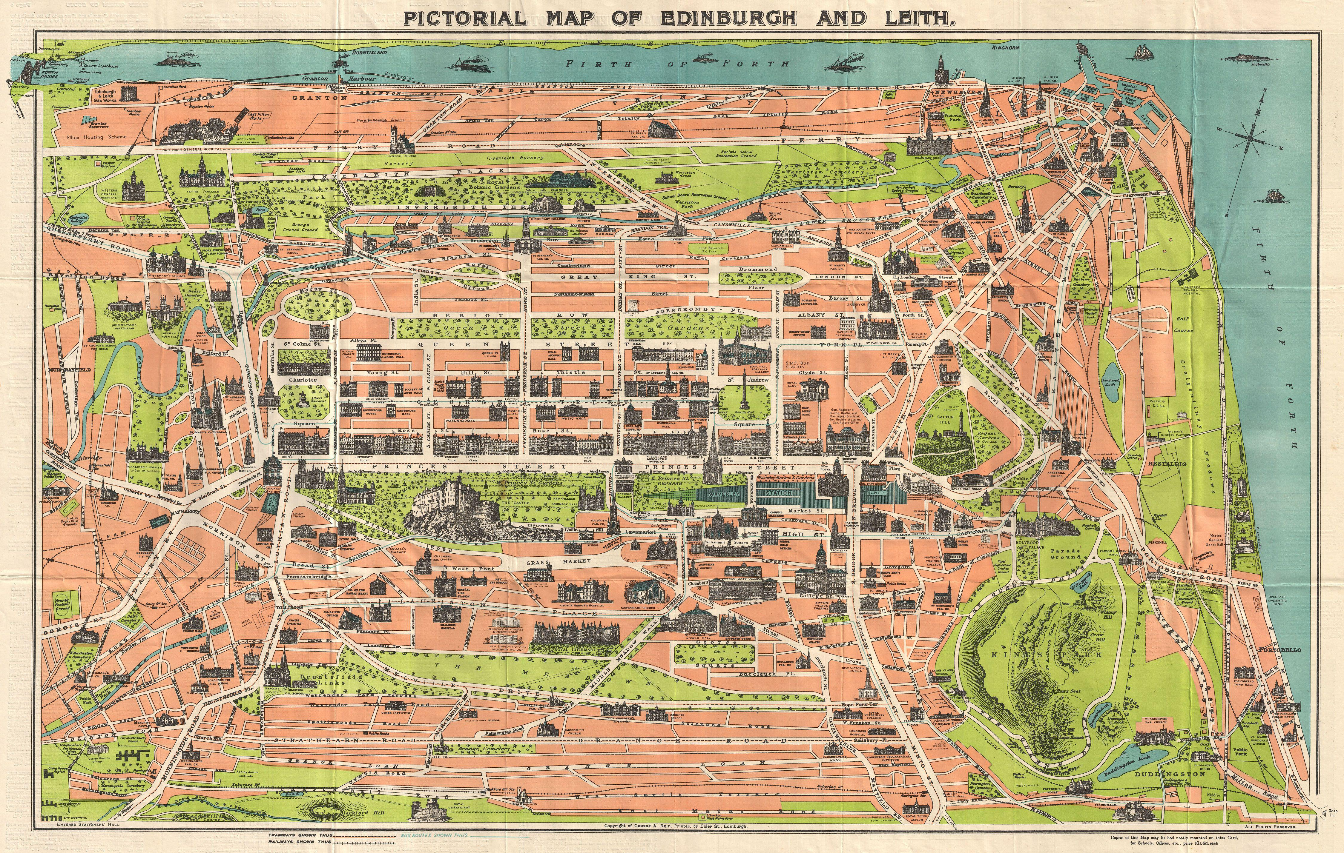 This is an unusual art deco style plan of Edinburgh, Scotland by George A. Reid. Covers the whole of Edinburgh with important monuments and buildings represented in profile. Names various streets, parks, and business as well as railways, ferries, and trolleys. This is the Clarinda Edition of Reid's map, referring to the Story of Clarinda which appears on the verso along with a biography of Mary Queen of Scots. Clarinda was an Edinburgh native who had a clandestine affair with Robert Burns, inspiring, some say, much of his best work. Pictorial maps like more commonly represent major centers like Paris and London. This is the only such example I have come across focusing on Edinburgh.